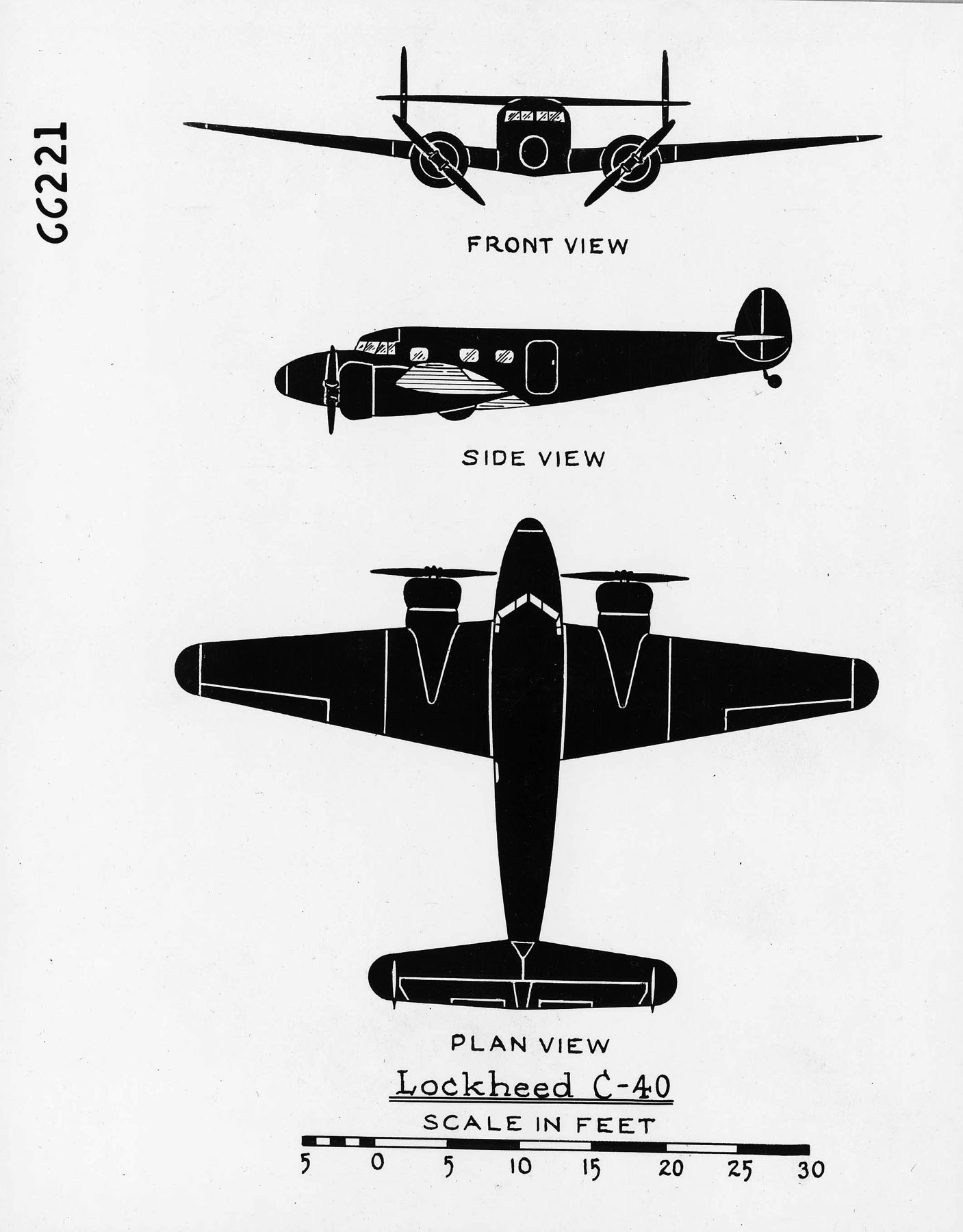 Lockheed C-40 three-view. (U.S. Air Force photo)